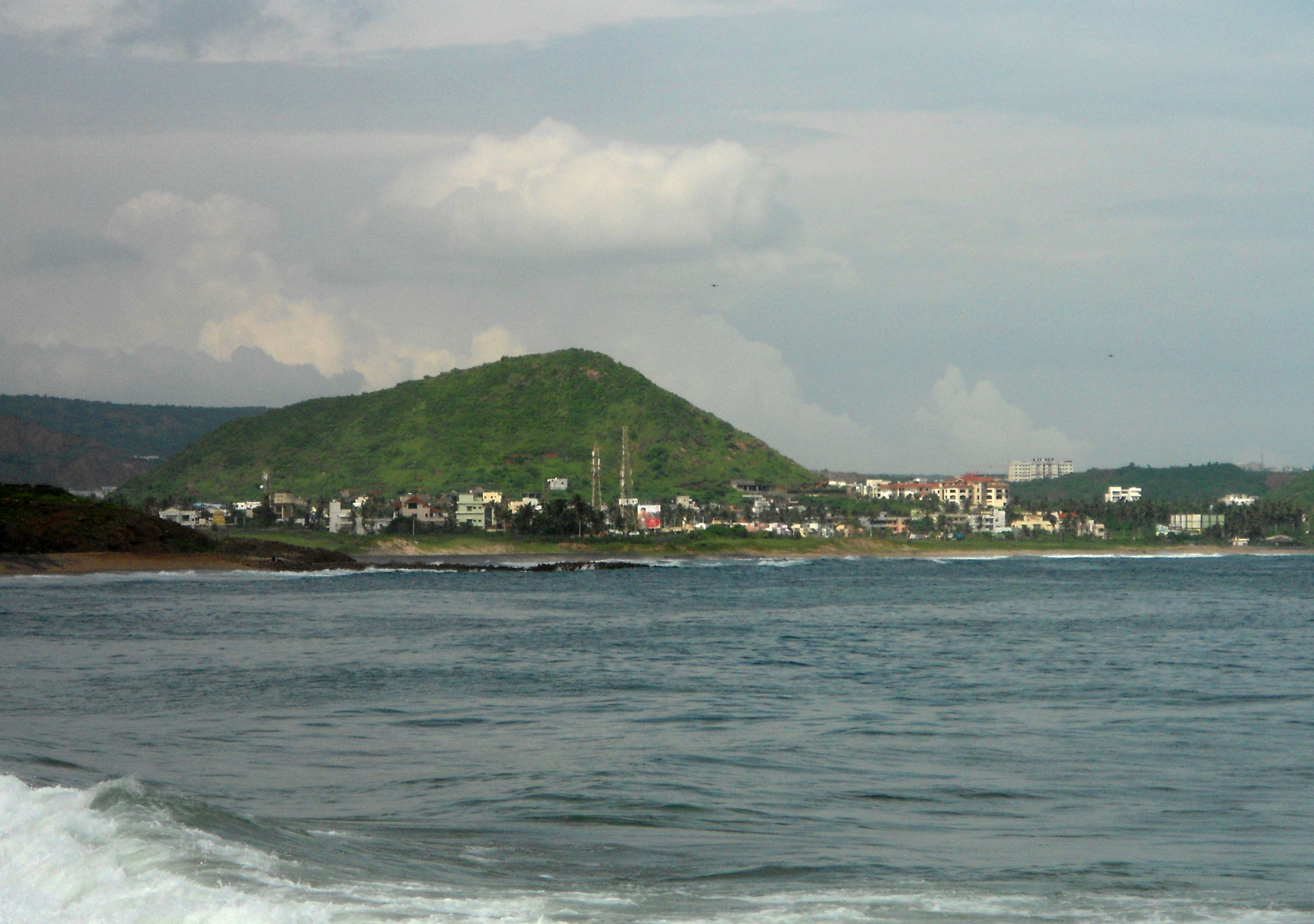 Farview of Sagarnagar from Tenneti Park beach, Visakhapatnam